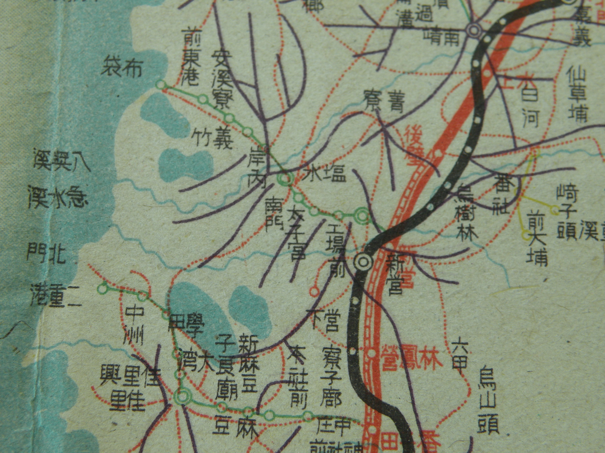 Railway Map of Shinei-kun(新營郡), Hokumon-kun(北門郡) et Sōbun-kun in Tainan-shu, Taiwan, Japan.